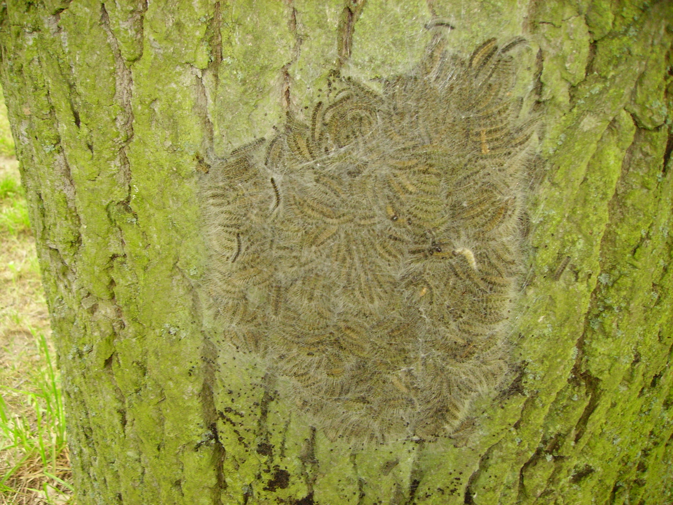 caterpillars of Oak Processionary (Thaumetopoea processionea) in nest at trunk of oak tree